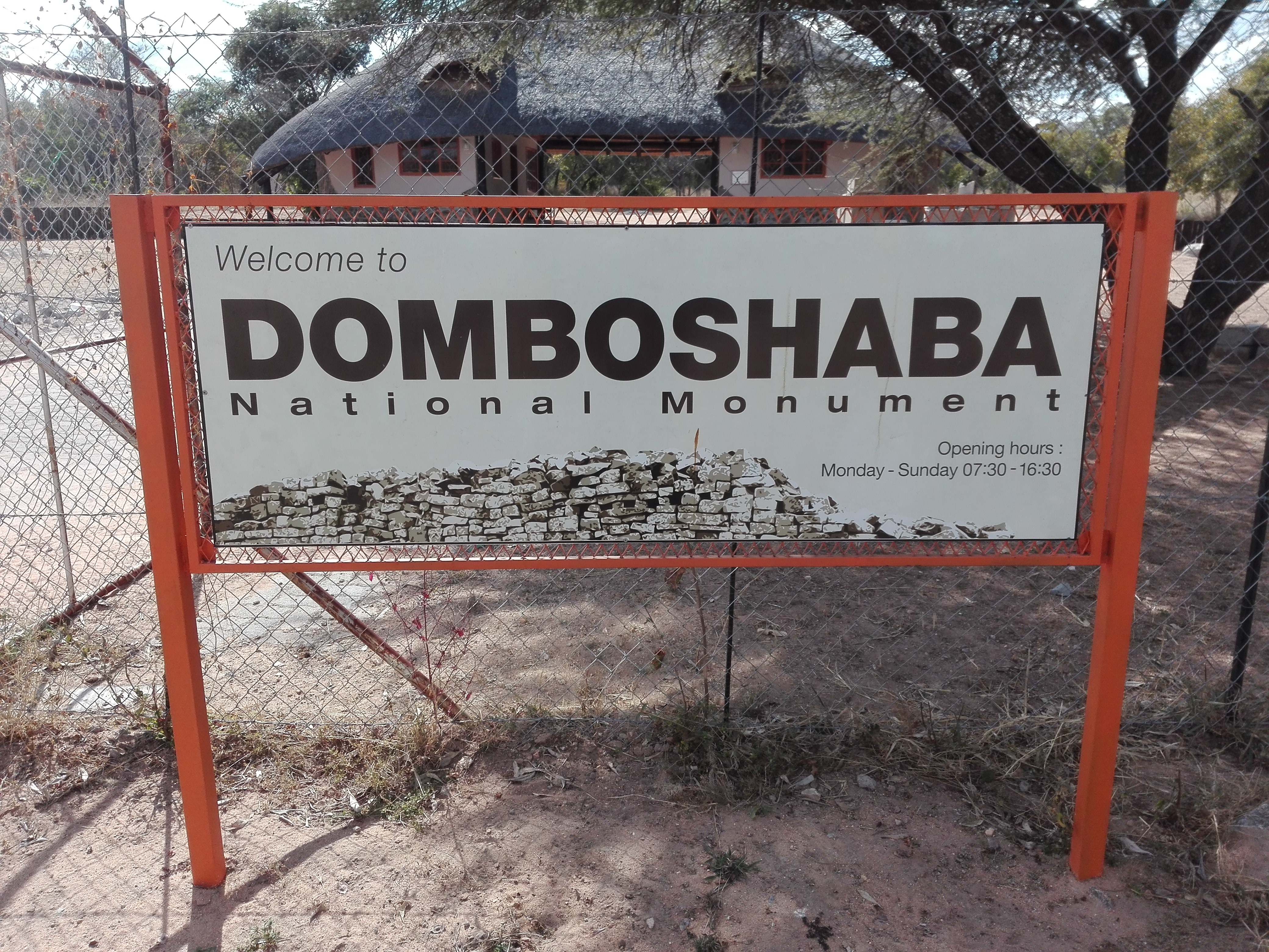 Domboshaba entrance